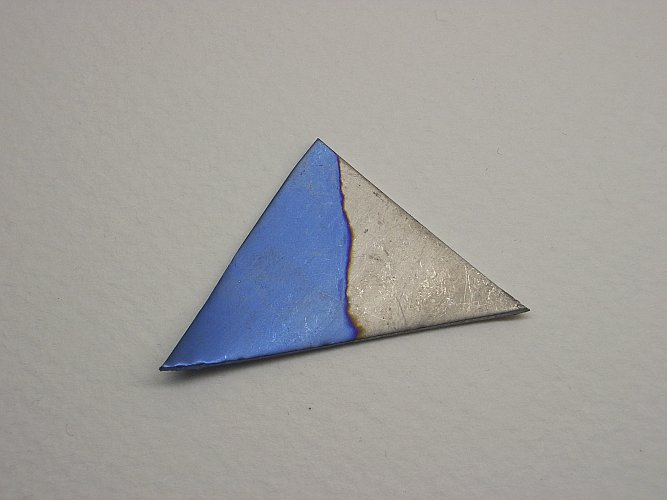 A niobium sheet with anodized portion